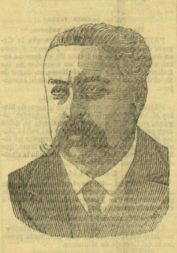 Pablo Morales Marcén